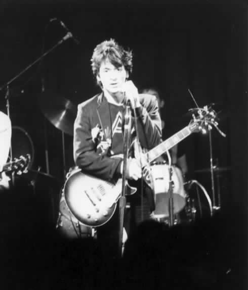 Johnny Thunders live